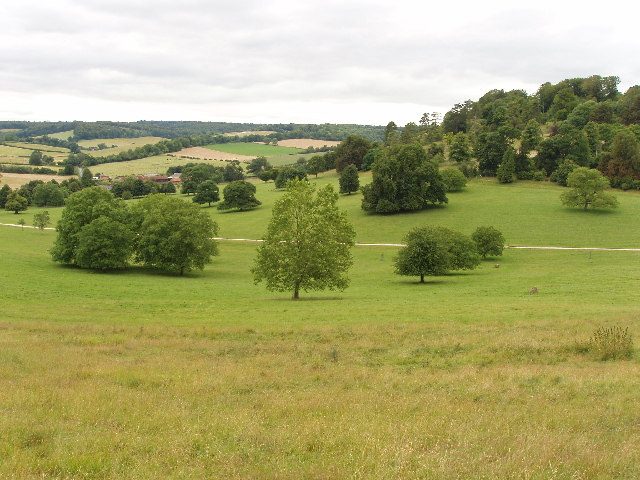 Stonor Park. Trees in open grassland either side of the main drive to the house. View from public footpath in the park.